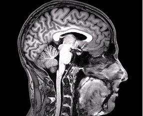 A High Quality T3 fMRI scan of my brain produced using the University of Birminghams Medical school fMRI machine from 2012